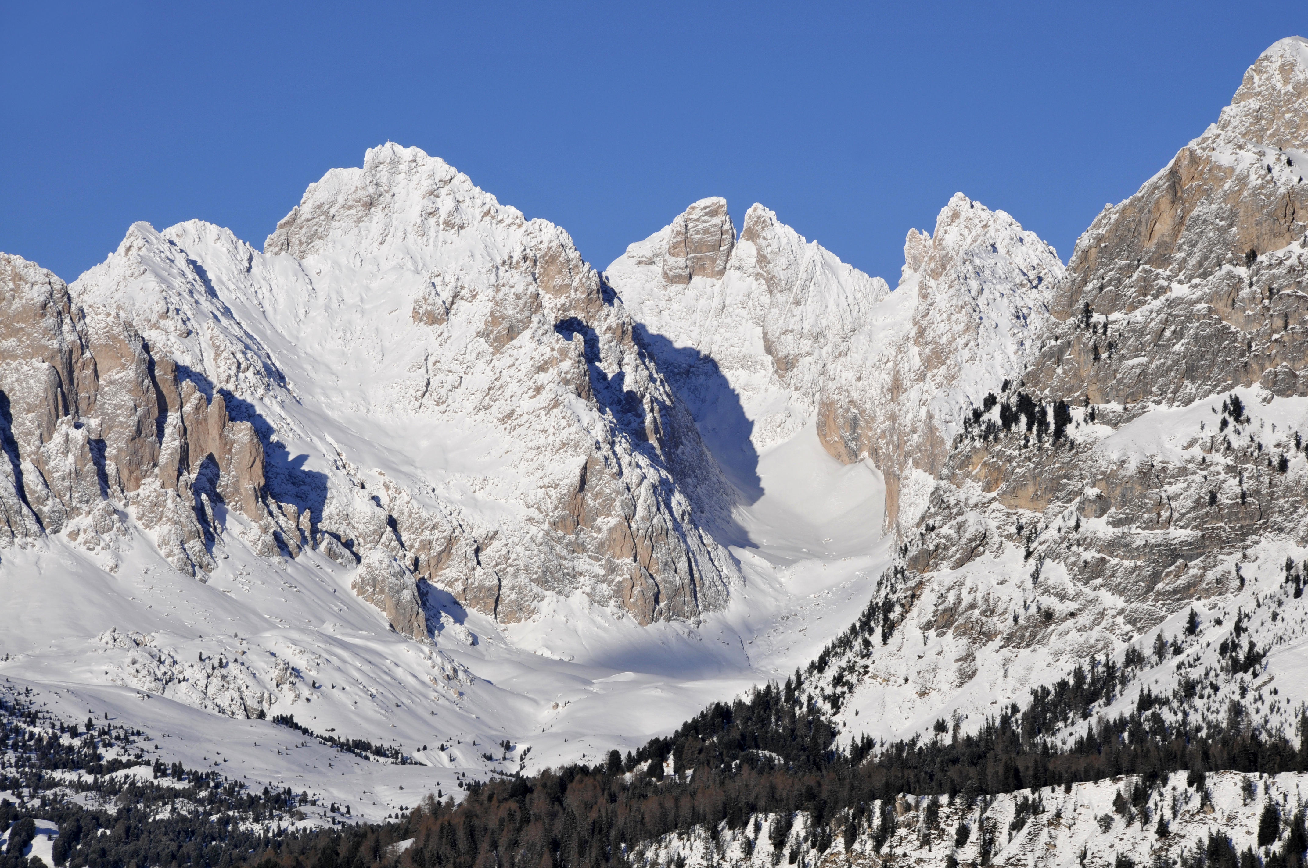 Sas Rigais